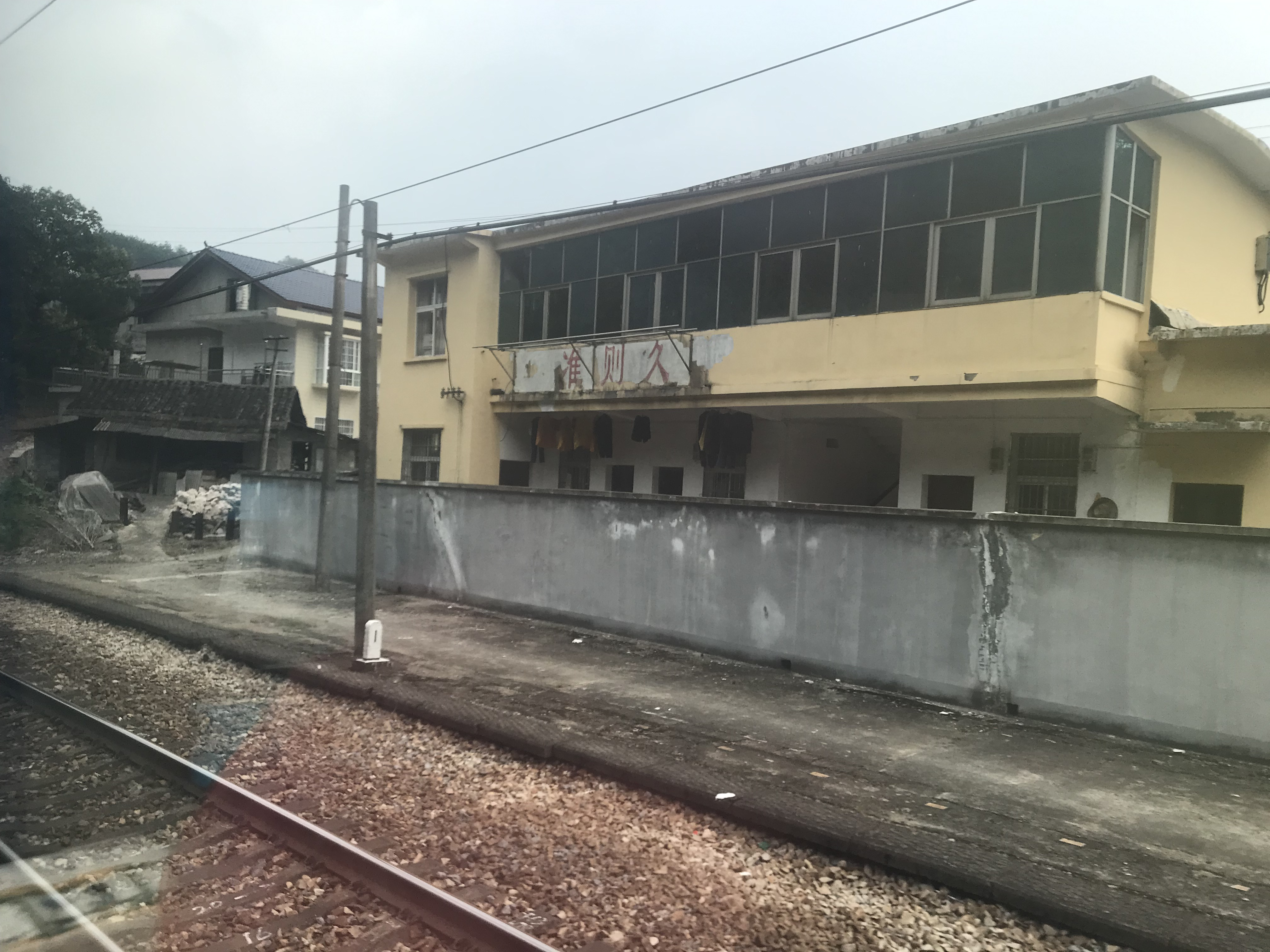 201908 Xuefeng Mountain Maintenance Team of GRGC